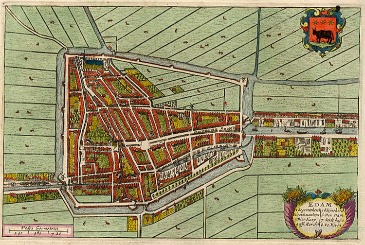 title: Edam; (1 of 4)size: 16 x 23